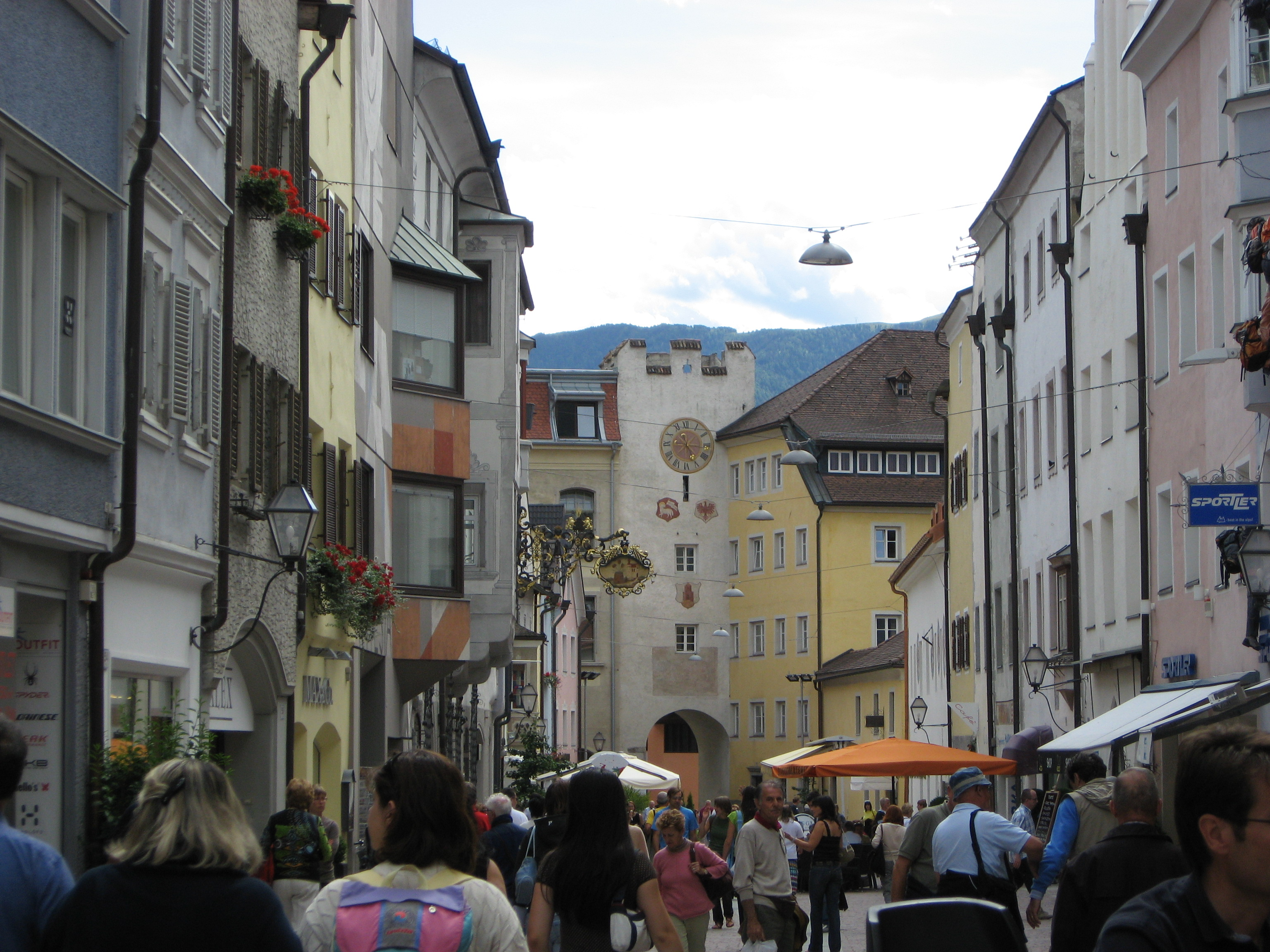 Bruneck in South Tyrol